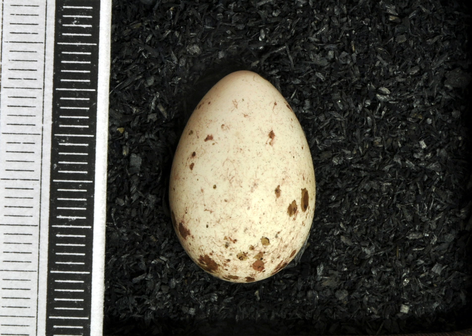 Social flycatcher Myiozetetes similis , egg, Coll. Museum Wiesbaden